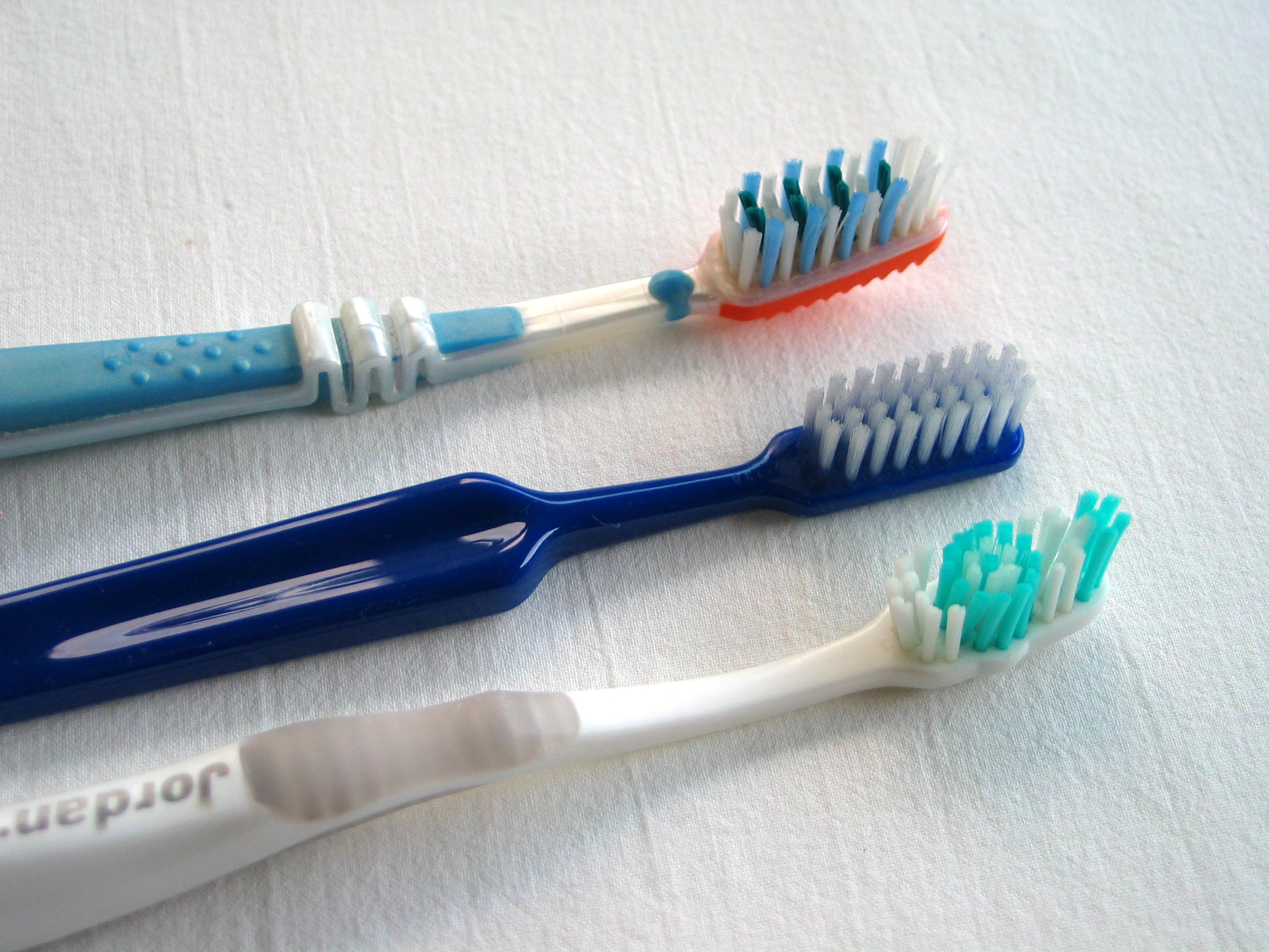 Three toothbrushes, photo taken in Sweden